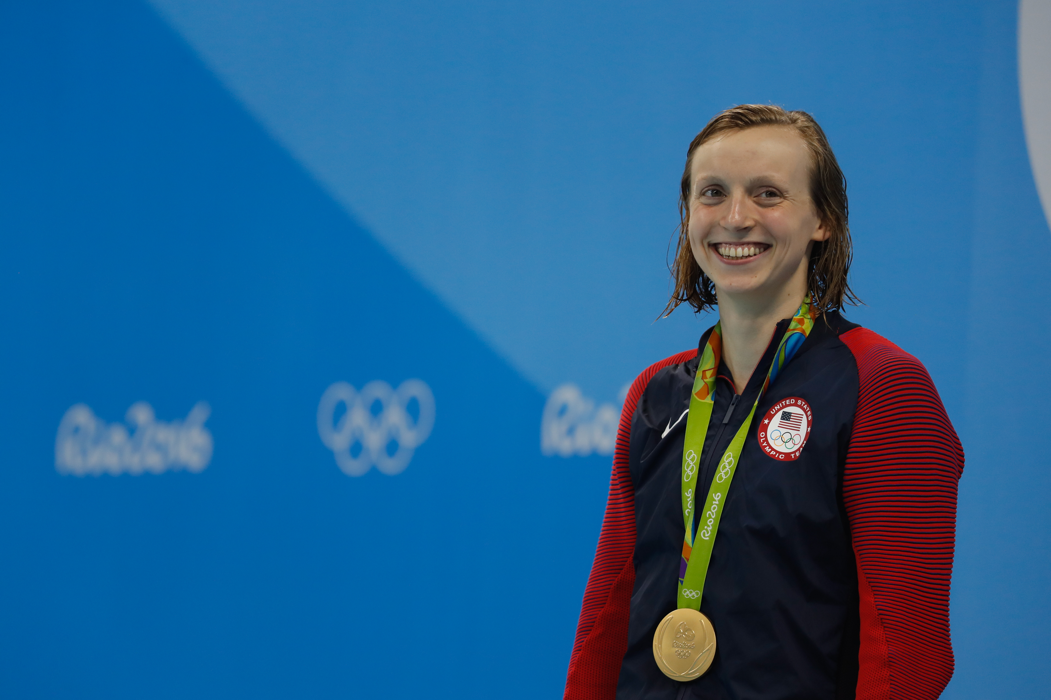 Rio de Janeiro - Norte-americana Katie Ledecky vence 200m nado livre nos Jogos Rio 2016. (Fernando Frazão/Agência Brasil)